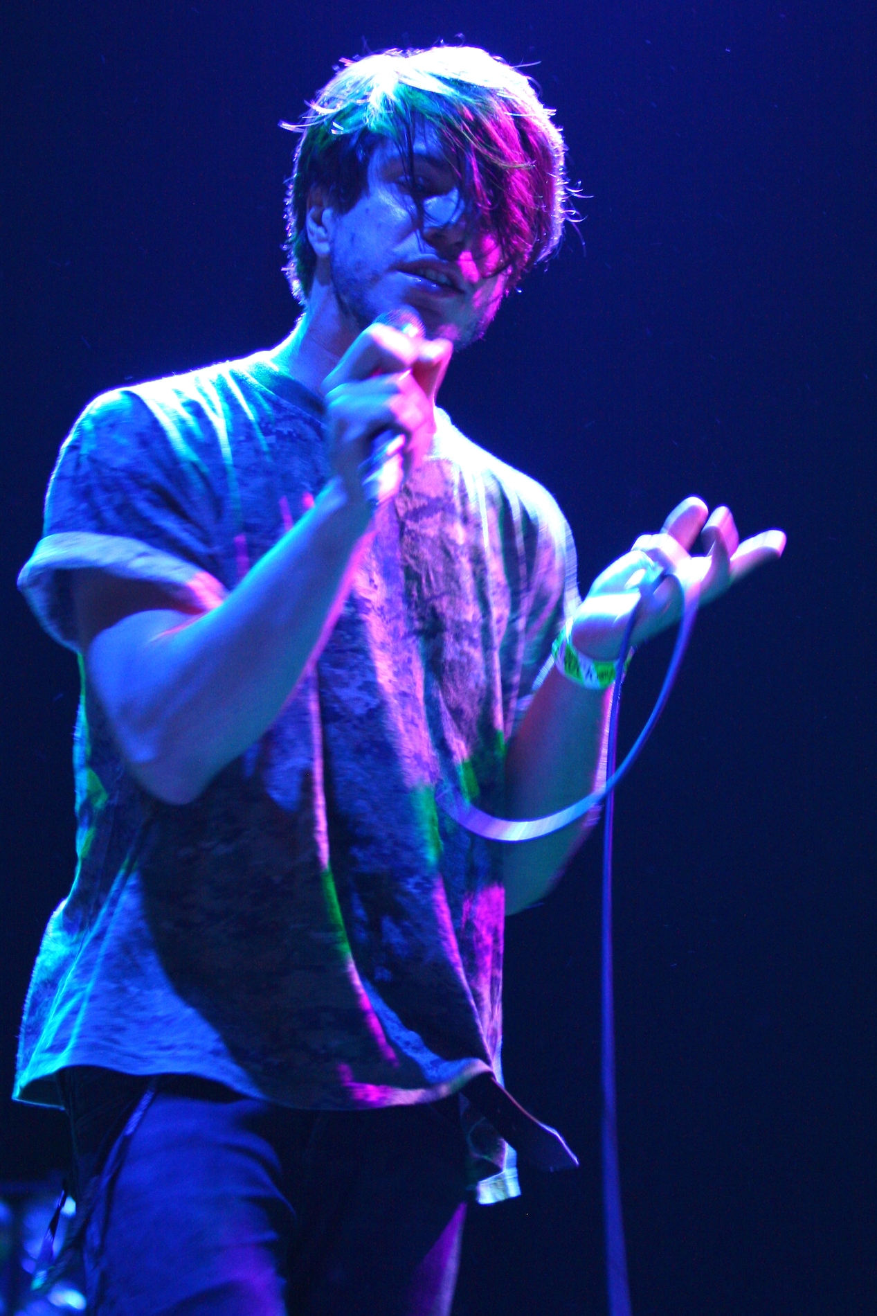 Roman Rappak, singer of Breton, Rock im Park Festival 2014. Festivalsommer This photo was created with the support of donations to Wikimedia Deutschland in the context of the CPB project "Festival Summer".